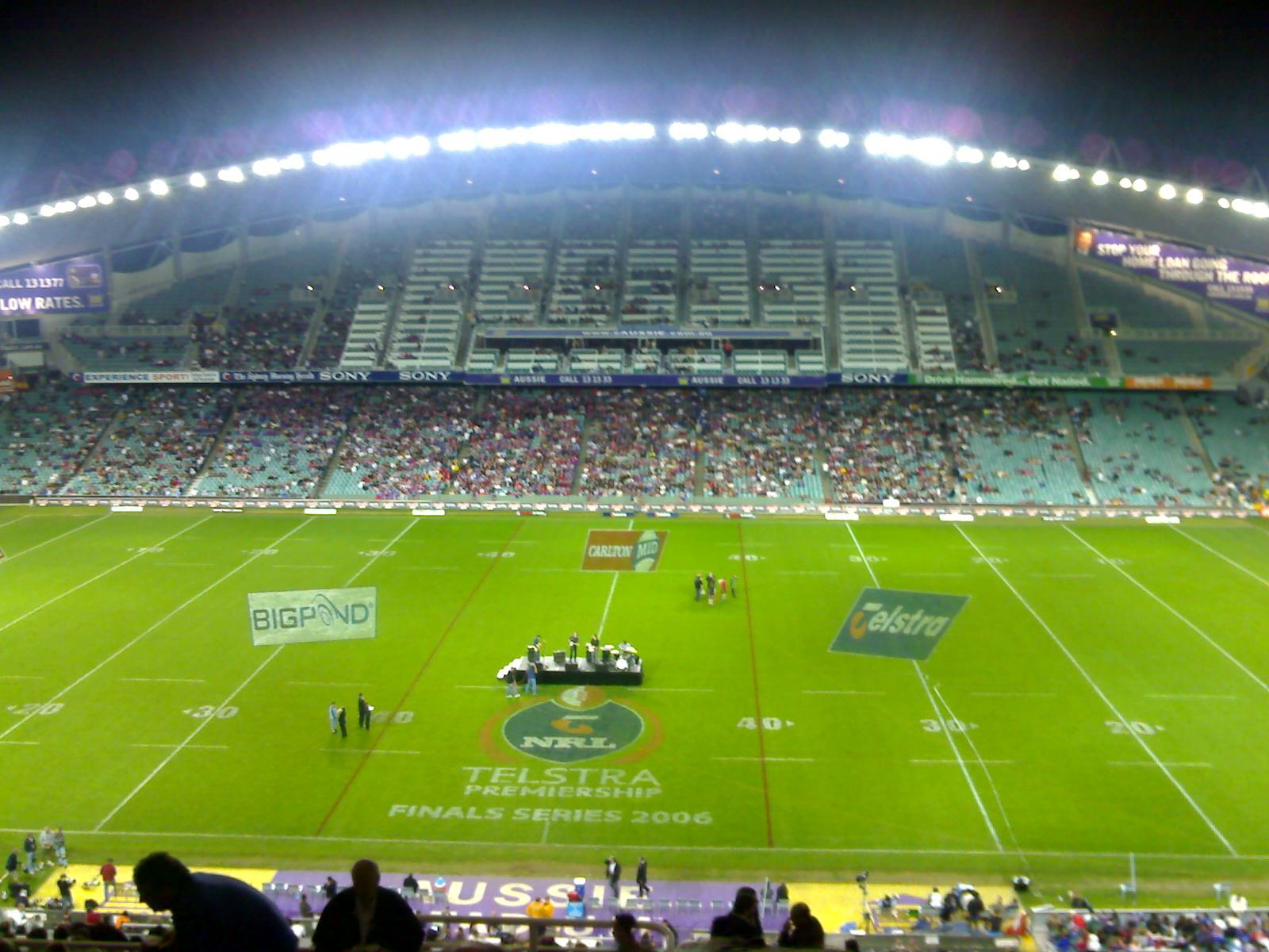 Taken by myself at an NRL Finals match in 2006.